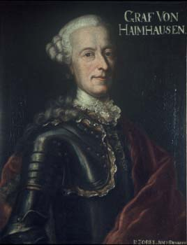 Portrait of Sigmund von Haimhausen (1708-1793), former President of the Bavarian Academy of Science